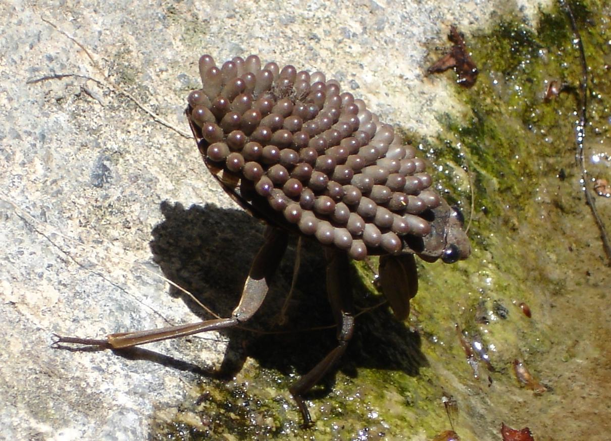 Abedus indentatus species of Giant Water Bug. This is the male of the species, which during the cold winter carries the eggs of the female on its back:[1]